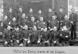 Royal Marine Artillery Esquimalt Garrison Christmas card, 1897.